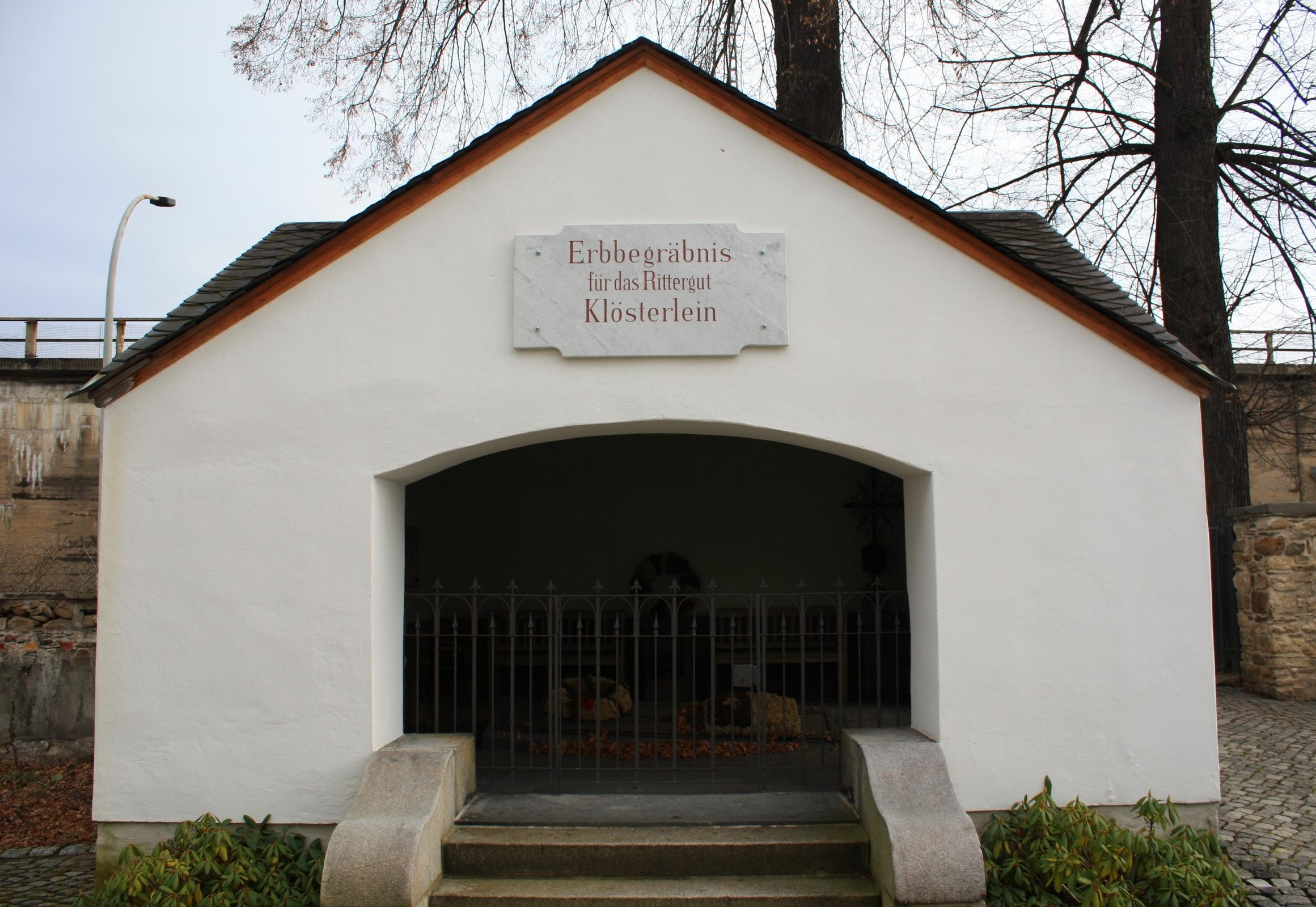 Erbbegräbnis für das Rittergut Klösterlein, Aue, Saxony.